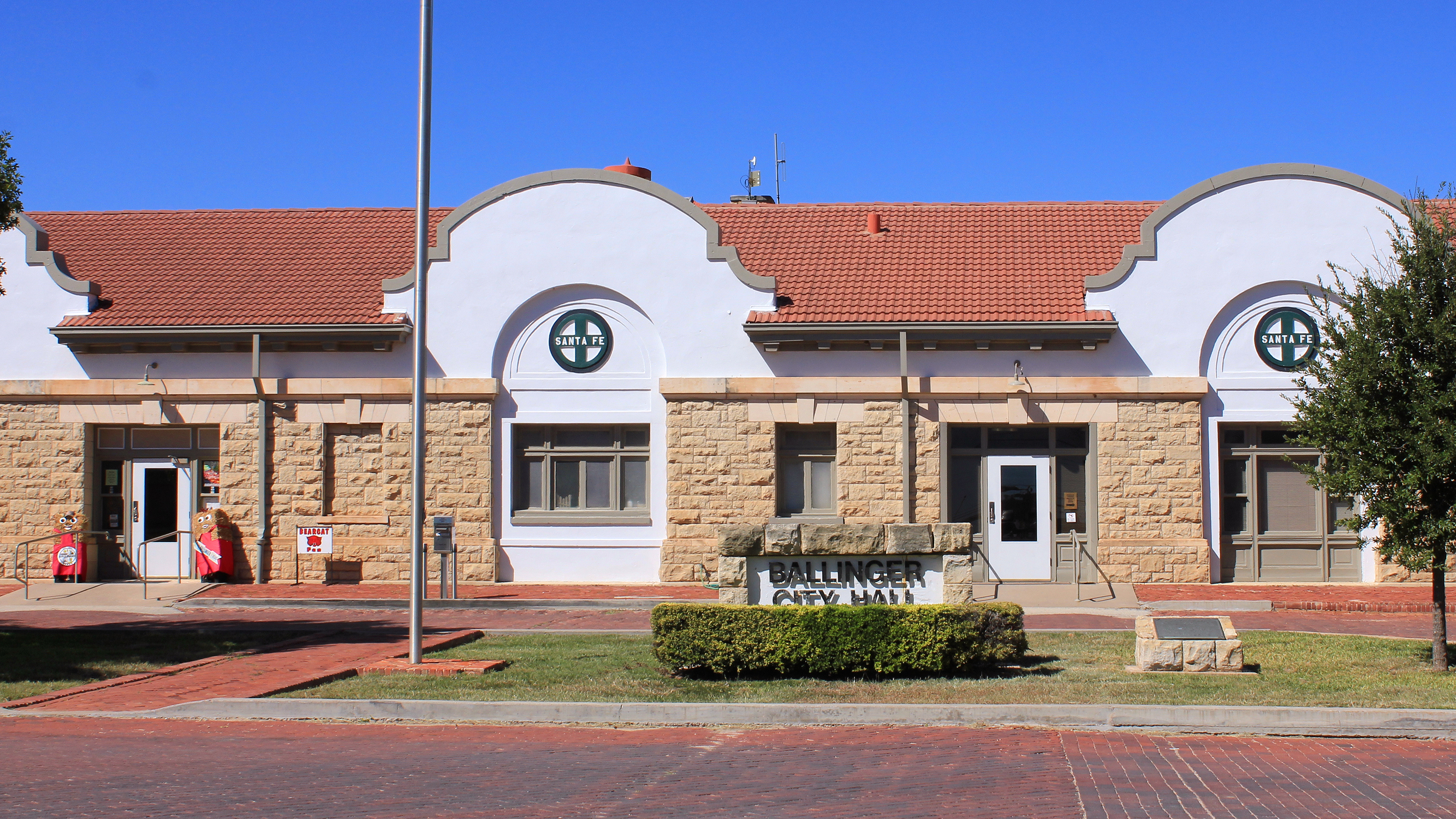 The Ballinger Texas City Hall is housed inside the city's former train station.